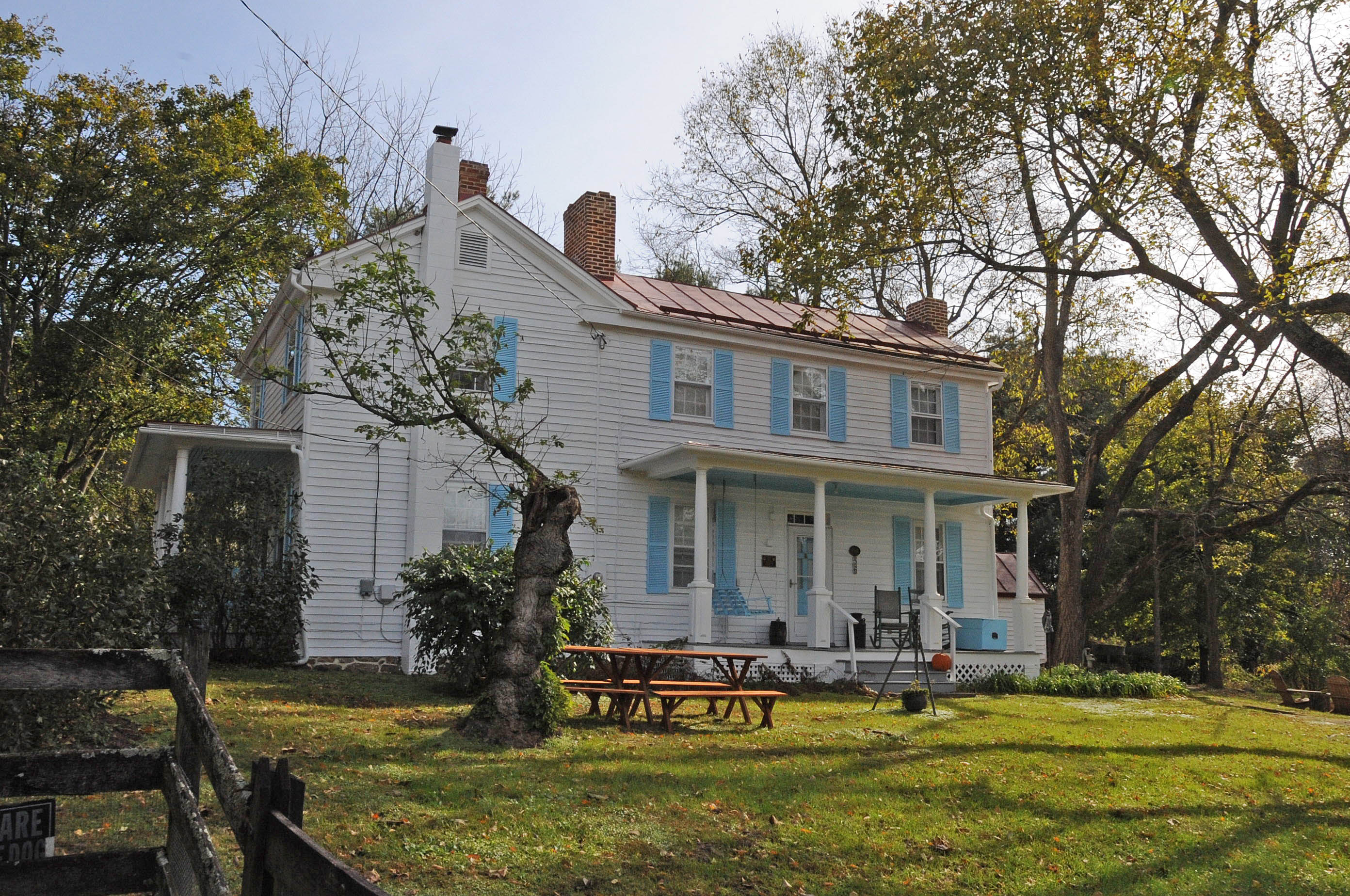 1856 VERNACULAR ITALIAN STYLE